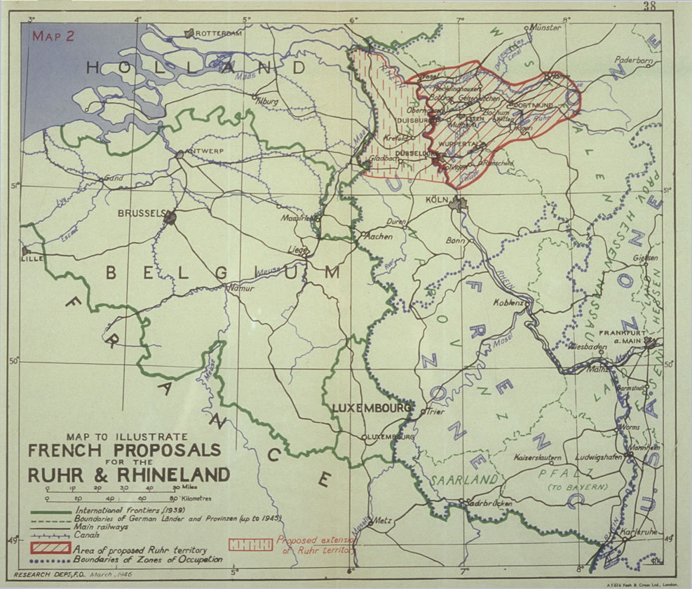 "Map to illustrate French proposals for the Ruhr and Rhineland". UK Foreign Office map, attached as "Map 2" in the memorandum by Ernest Bevin to the "Committee on German Industry". It shows the French proposal for the new "Ruhr territory" that is to be enlarged using parts of the Rhineland and then detached from Germany.